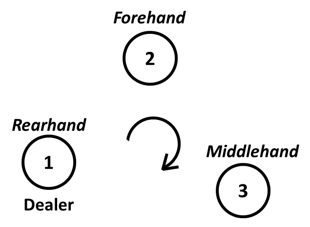 Diagram showing the positions of forehand, middlehand and rearhand relative to the dealer in a three-player game such as Skat.